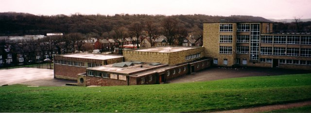 Abbeydale Grange Lower School View from Woods above school.